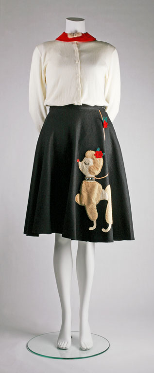 A poodle skirt & matching collar in the permanent collection of The Children’s Museum of Indianapolis.